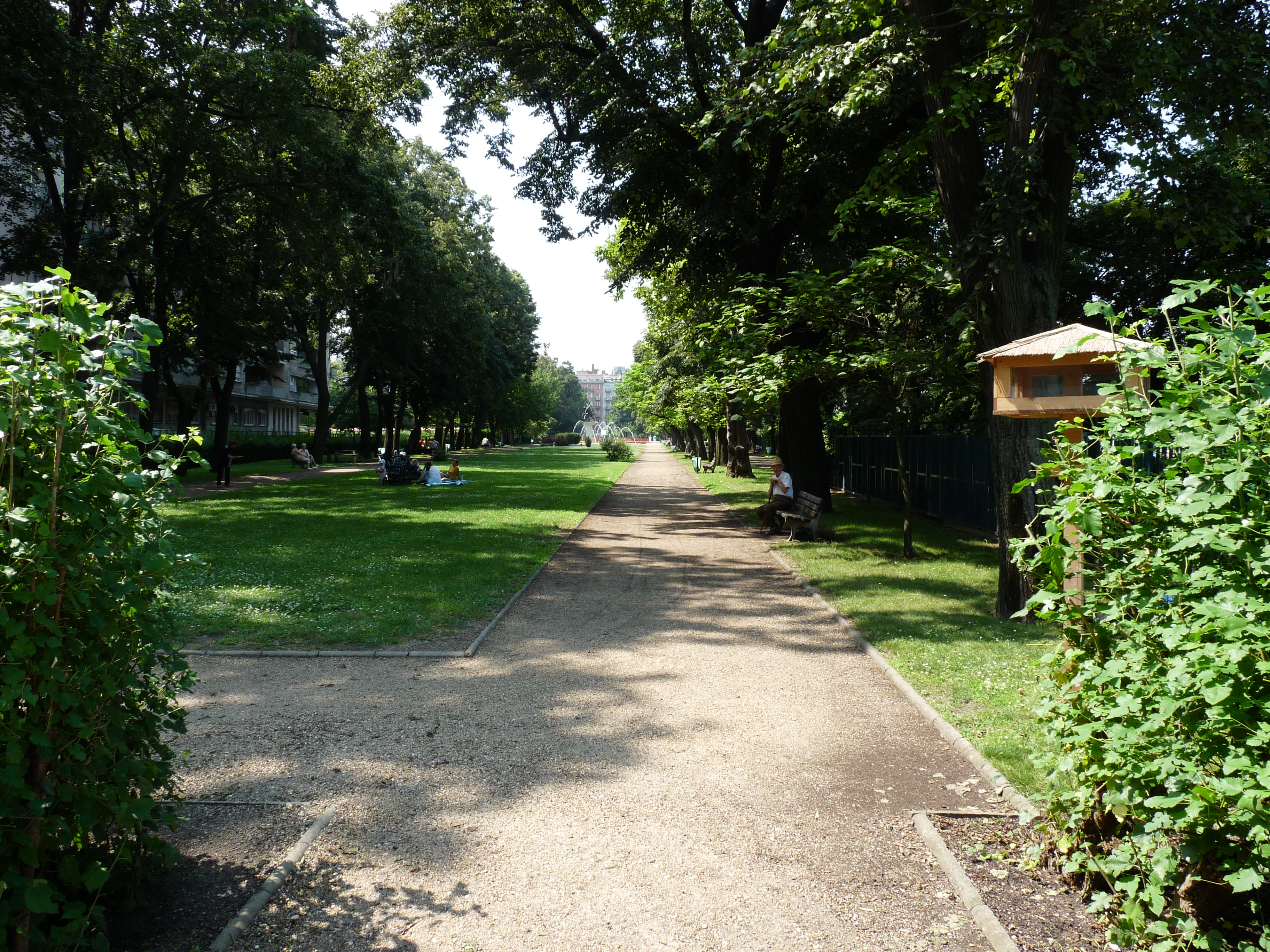 Saint Stephen Park entry from the North.